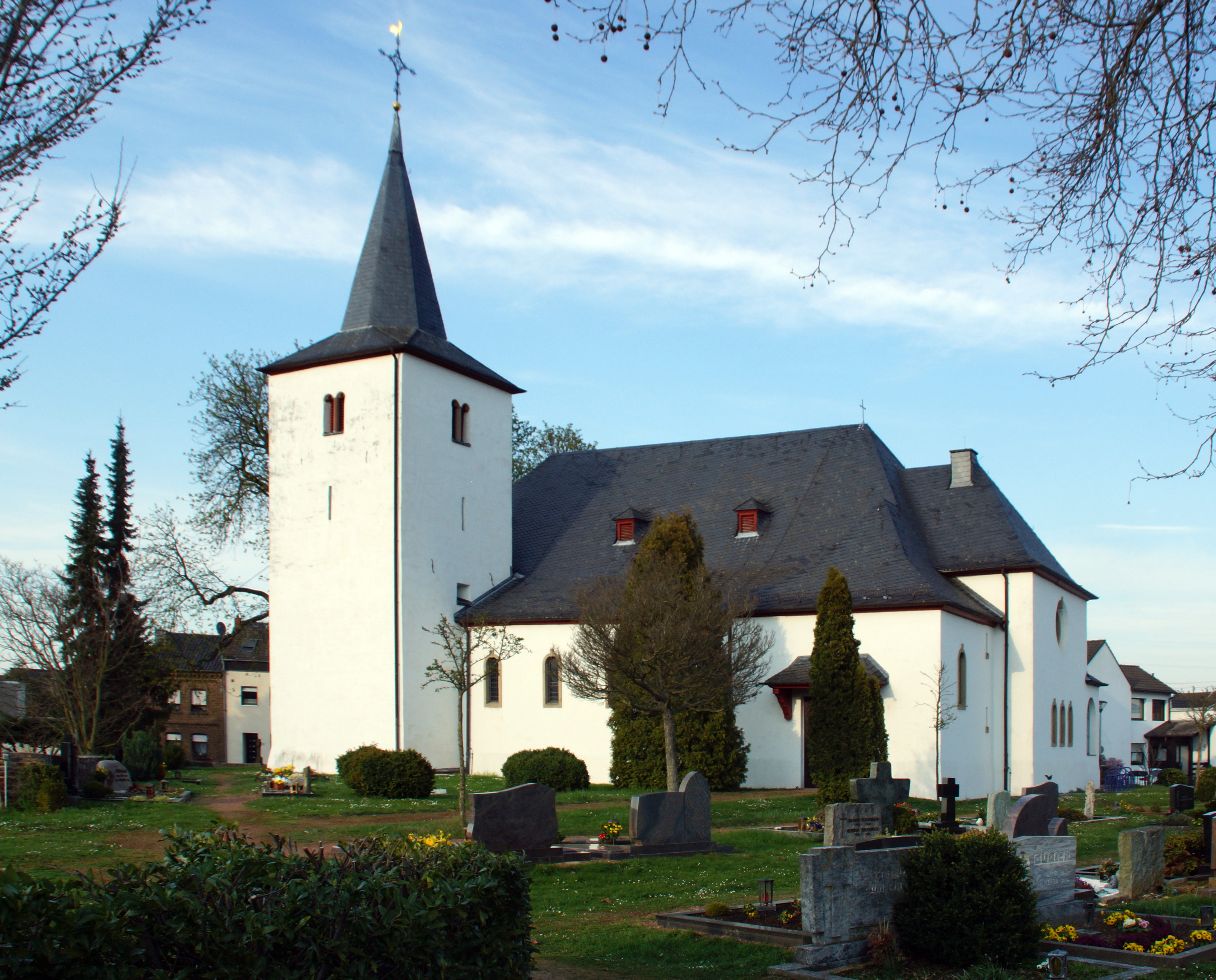 Catholic church of St. Stephanus in Roitzheim